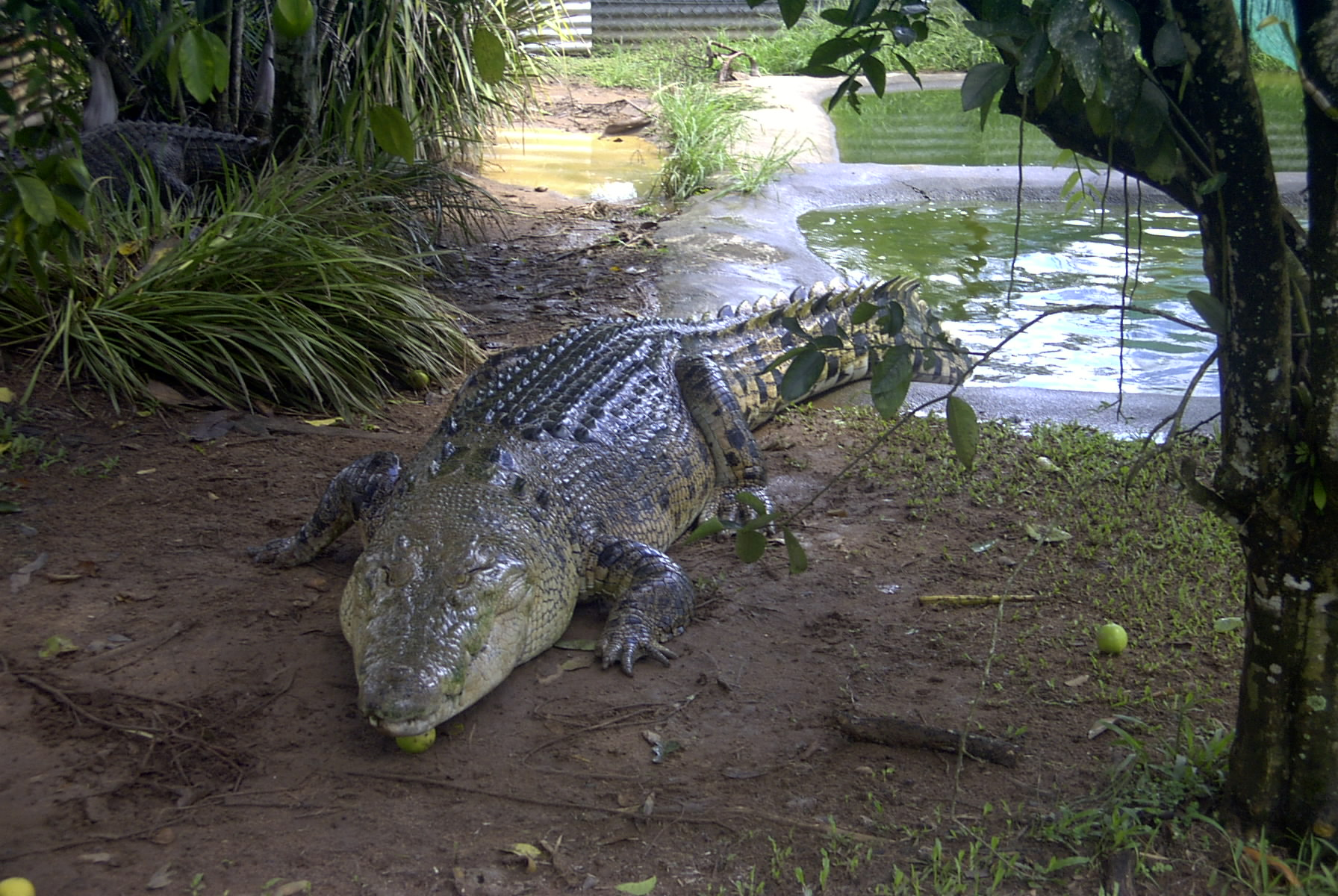 Picture of a rather large Crocodile, taken outside Cairns Queensland. Saltwater or Estuarine Crocodile (Crocodylus porosus)